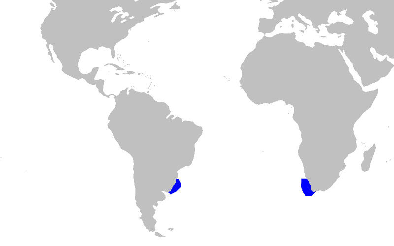 Distribution map for Euprotomicroides zantedeschia